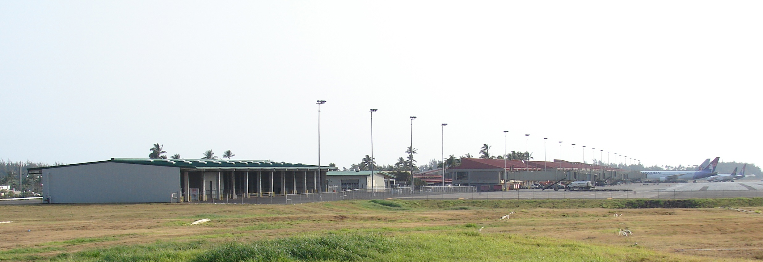 Kahului Airport, looking from the Cargo Apron towards the East.